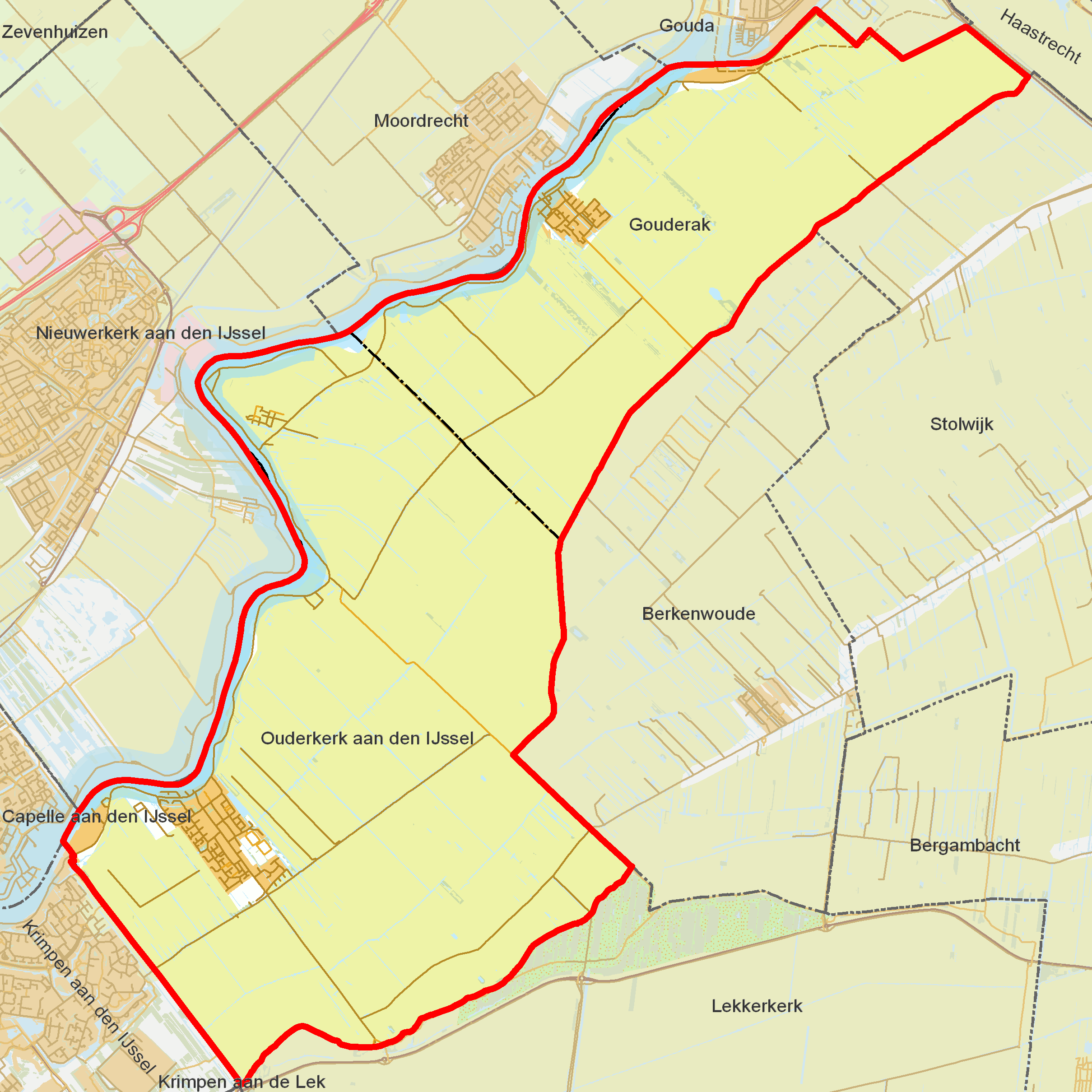 BAG woonplaatsen (legally demarcated settlement names) in the municipality (gemeente) Ouderkerk, in the province of South Holland (Zuid-Holland).